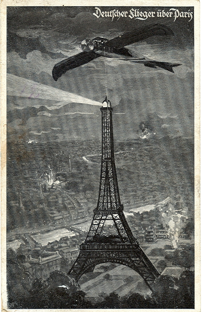 Postcard, undated ( ca.1915 ). Title: "German airplanes over Paris"